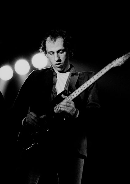 Mark Knopfler, lead guitarist performing with Dire Straits Photographer: Eddie Mallin